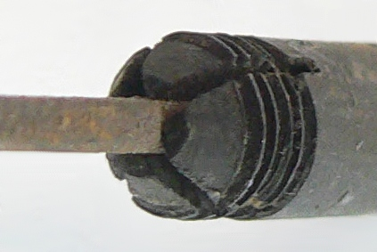 Chuck of a drill wihthout nut